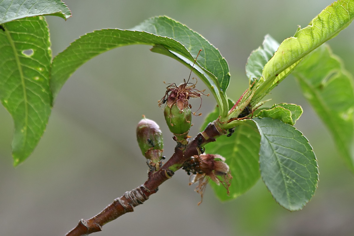 If successfully pollinated, flowers die back and incipient fruit can be observed; leaves have quickly grown to provide tree with food and energy from photosynthesis (≈ 1 month). East Gippsland, Victoria, Australia.